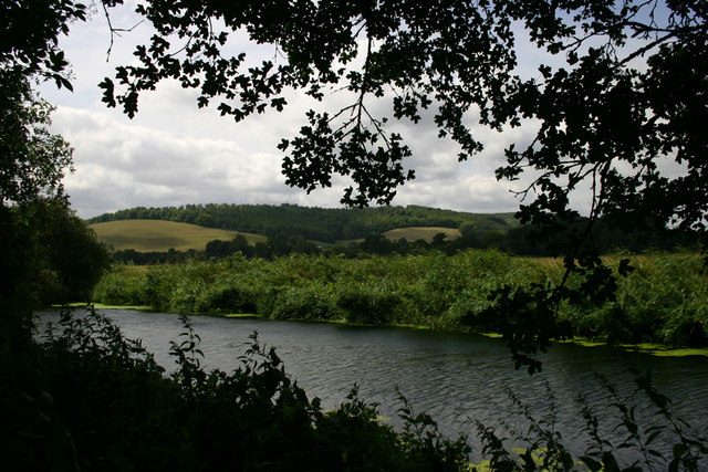 River Stour River Stour under Hod Hill with Shillingstone Hill in the background